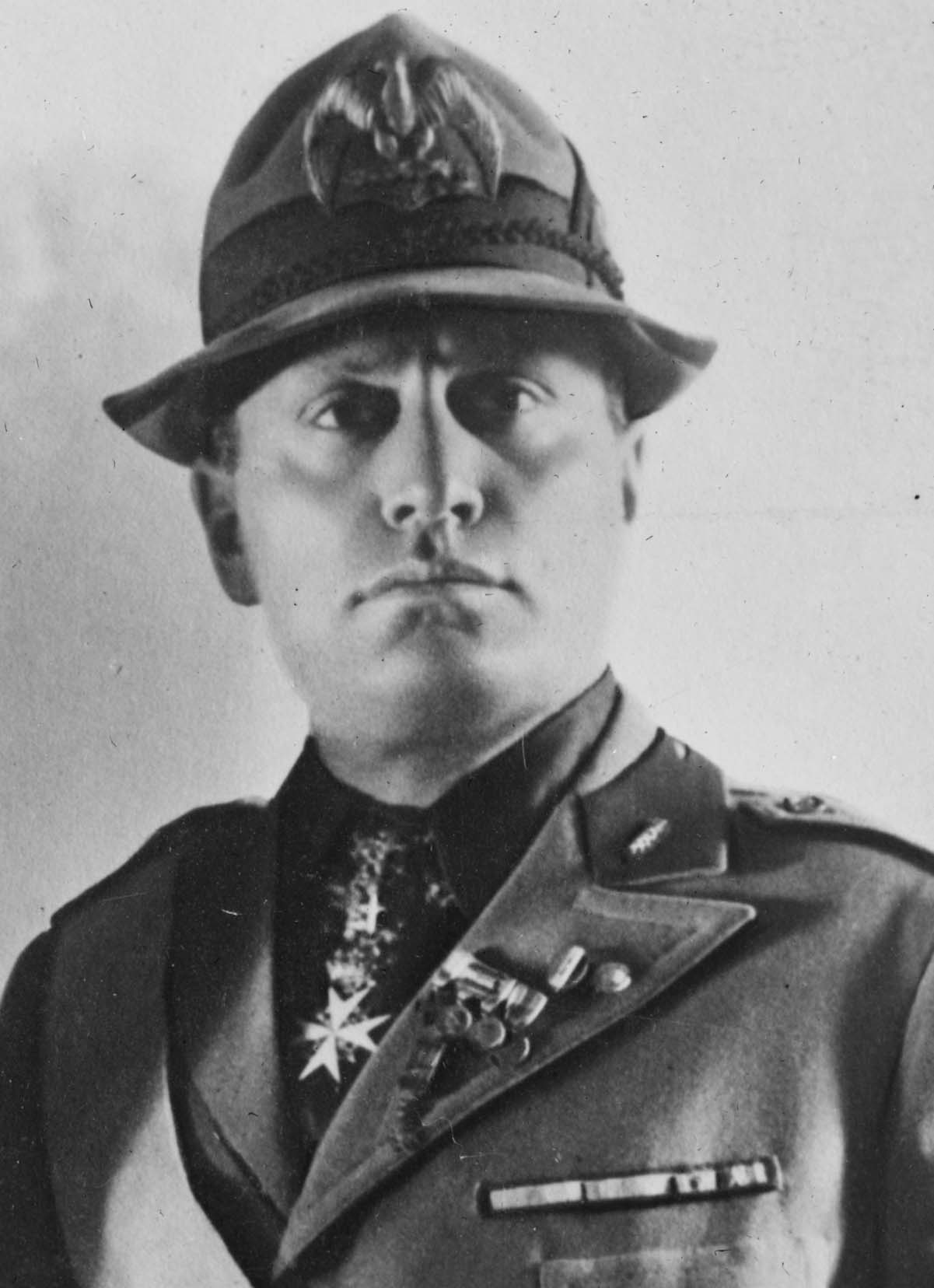 Mussolini, photographed by GG Bain.